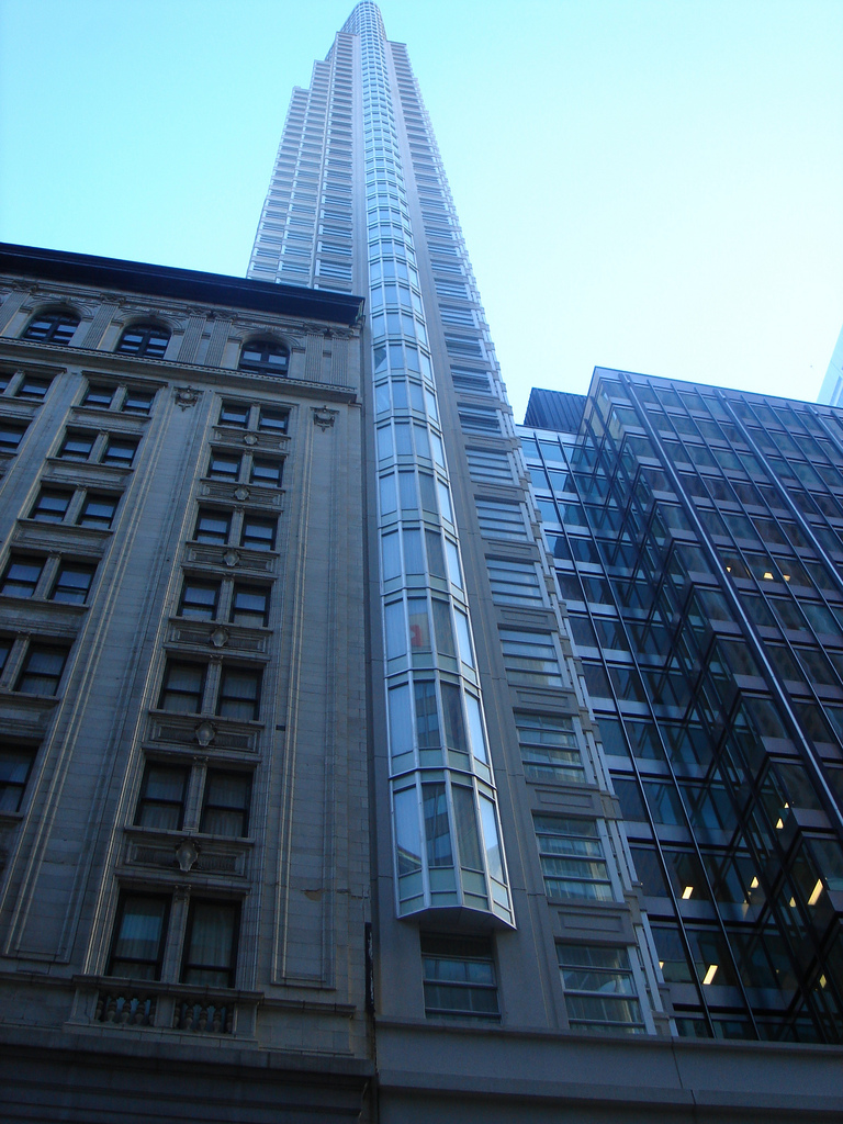 One King Street West, Toronto, Ontario, Canada.